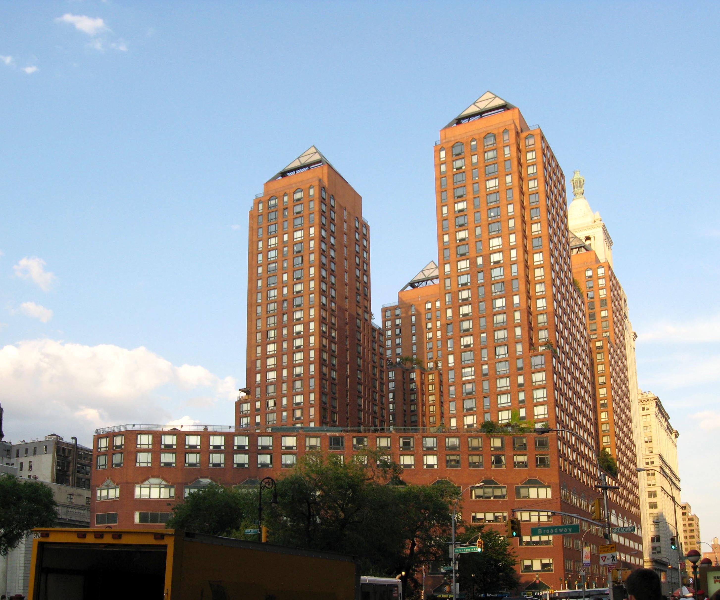 Looking east across en:14th Street (Manhattan) and Union Square (New York City) at Zeckendorf quad towers, late in a mostly sunny afternoon.